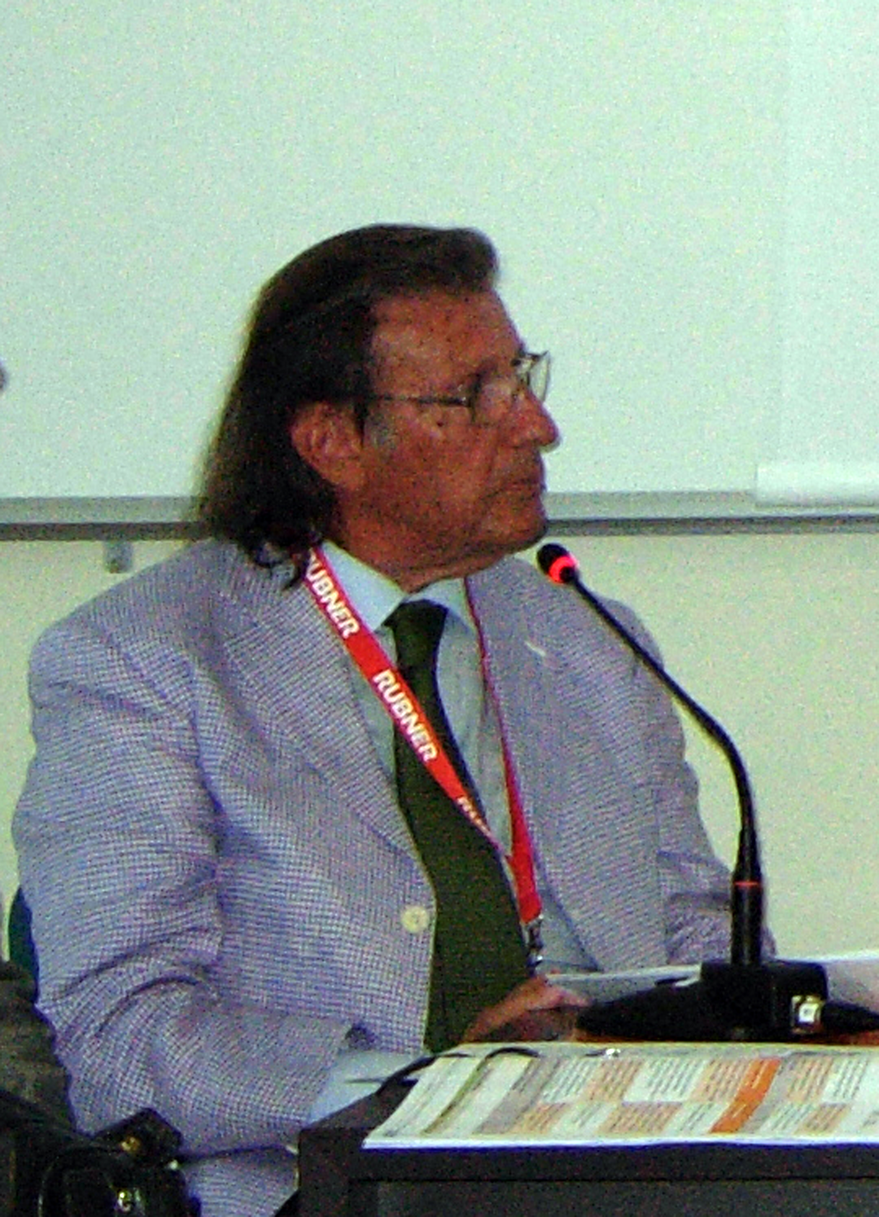 Engineer Gennaro Tampone while chairing a session of the Shatis'13 congress in Trento